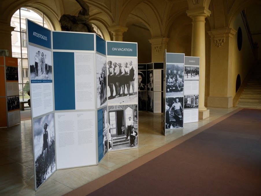 These panels are part of the lithuanian exhibition, November 2012